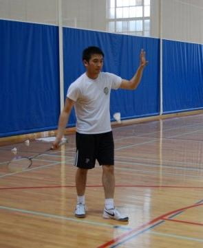 Lemuel Sibulo, USA, does a forehand service in a badminton match.